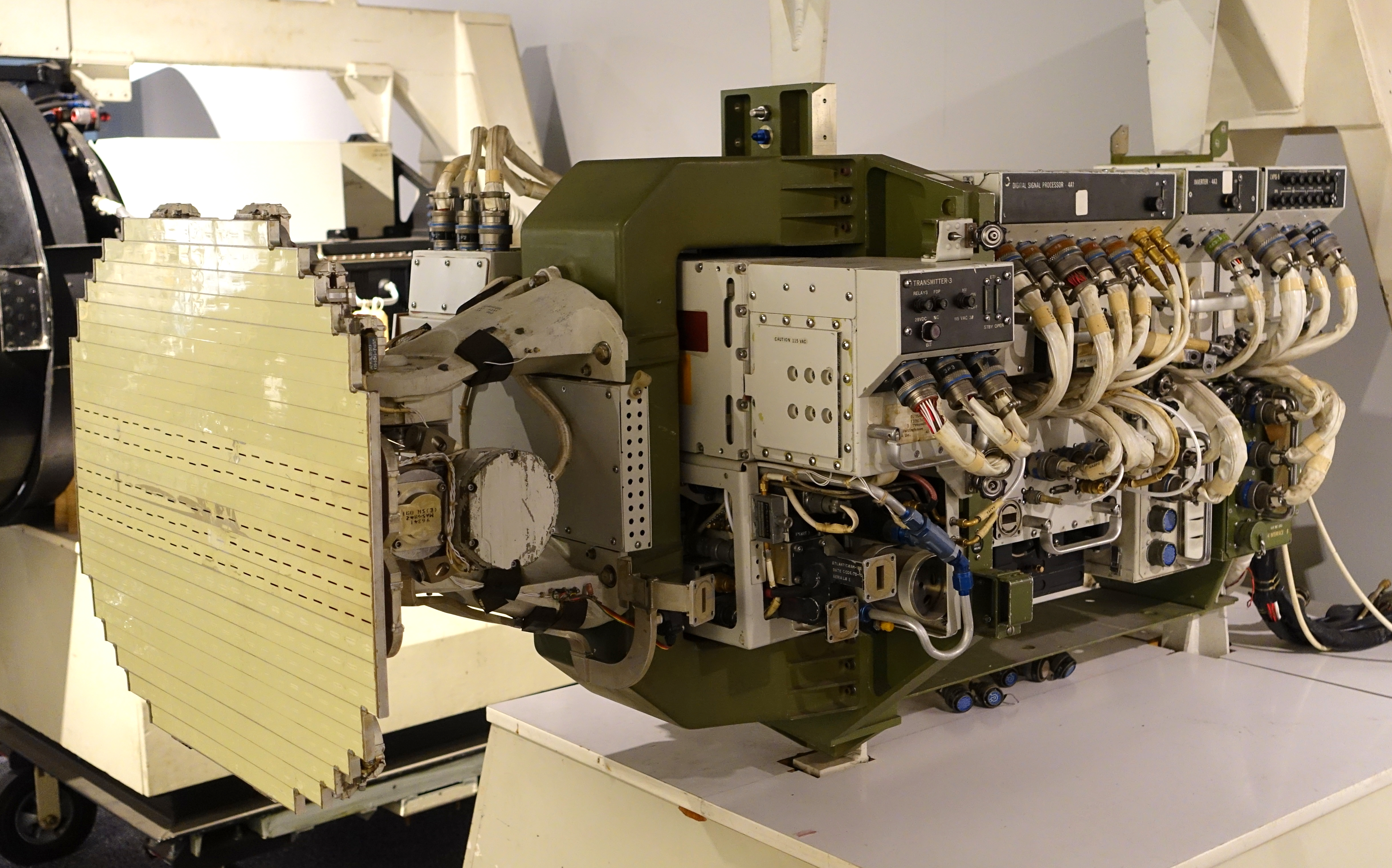 Exhibit in the National Electronics Museum, 1745 West Nursery Road, Linthicum, Maryland, USA. All items in this museum are unclassified. The museum permitted photography without restriction.